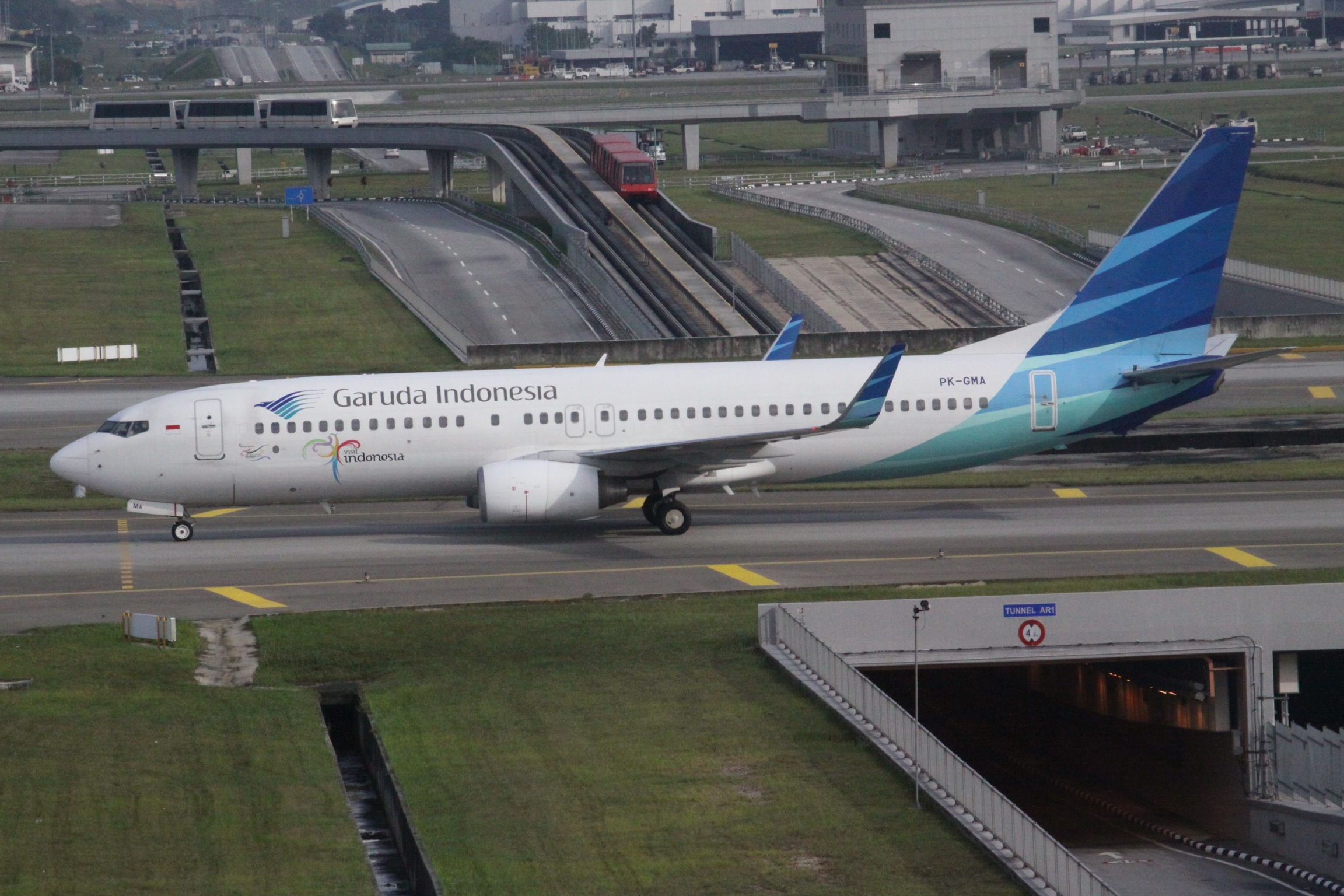 At Kuala Lumpur Sepang